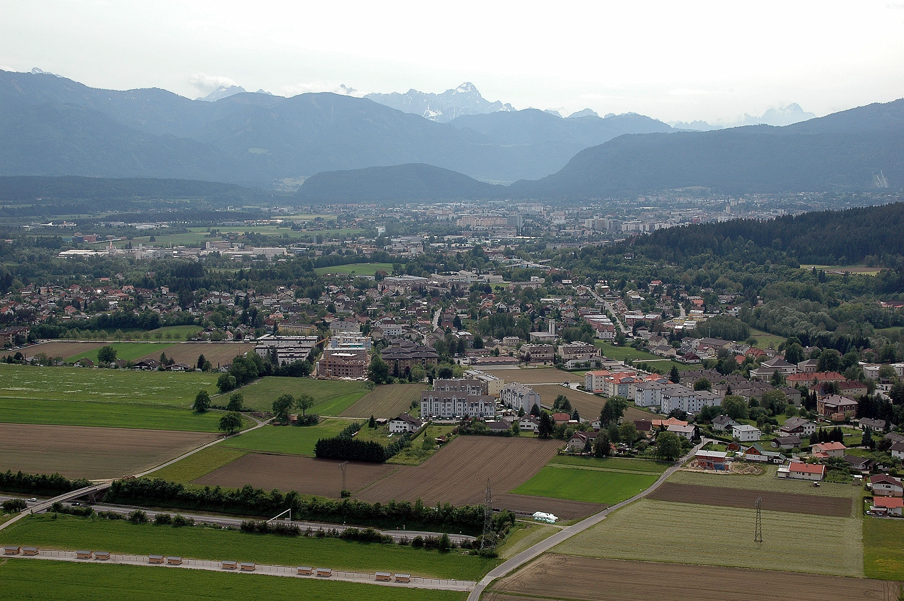 Northeastern view at Landskron from the castle ruin Landskron in Landskron, municipality Villach, Carinthia, Austria, EU